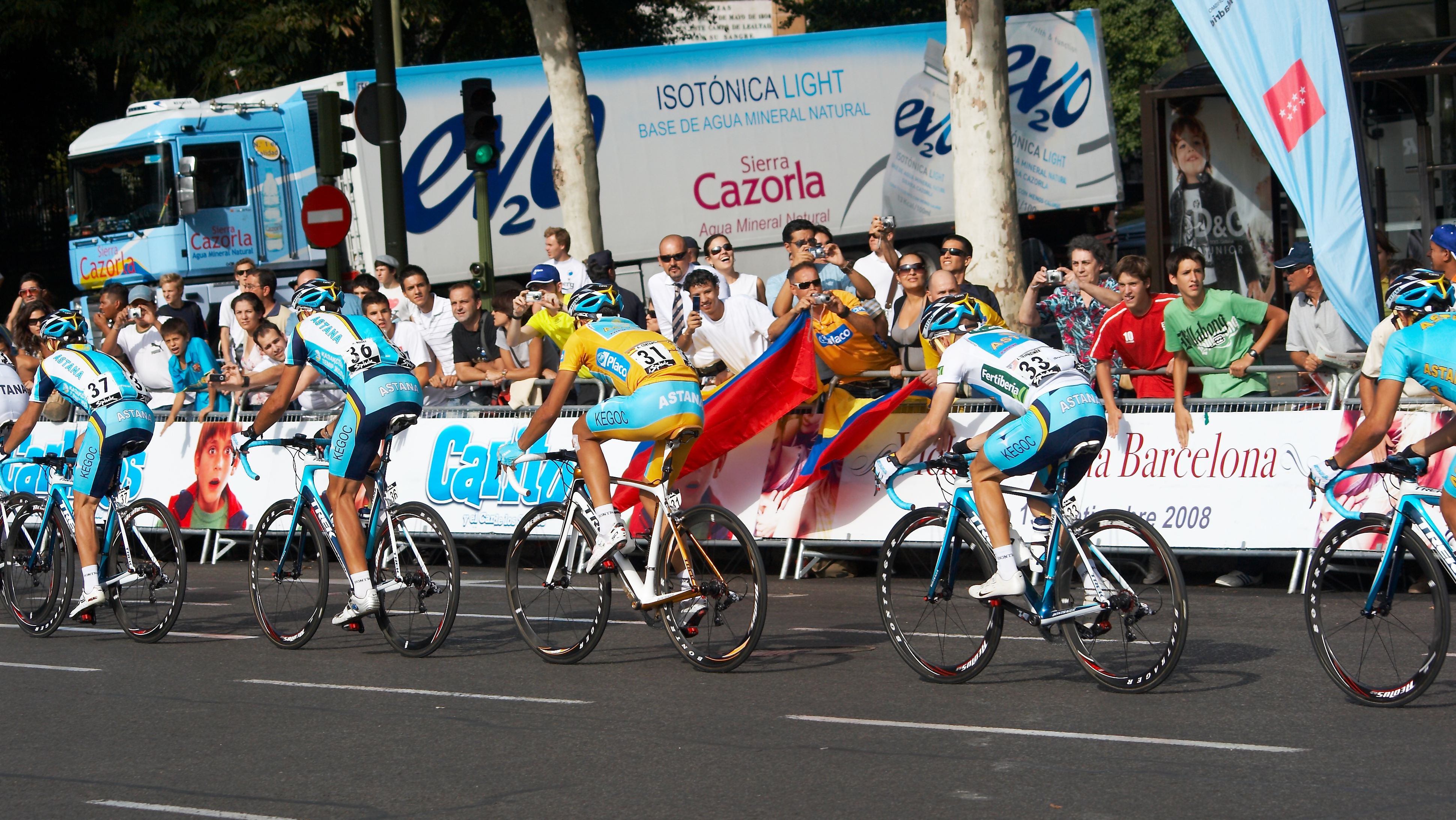 PAULINHO Sergio Miguel Moreira (37/POR), NOVAL GONZALEZ Benjamin (36/ESP), CONTADOR VELASCO Alberto (31/ESP) and LEIPHEIMER Levi (33/USA) from Astana team, 2008 Vuelta a España, Madrid, Spain.